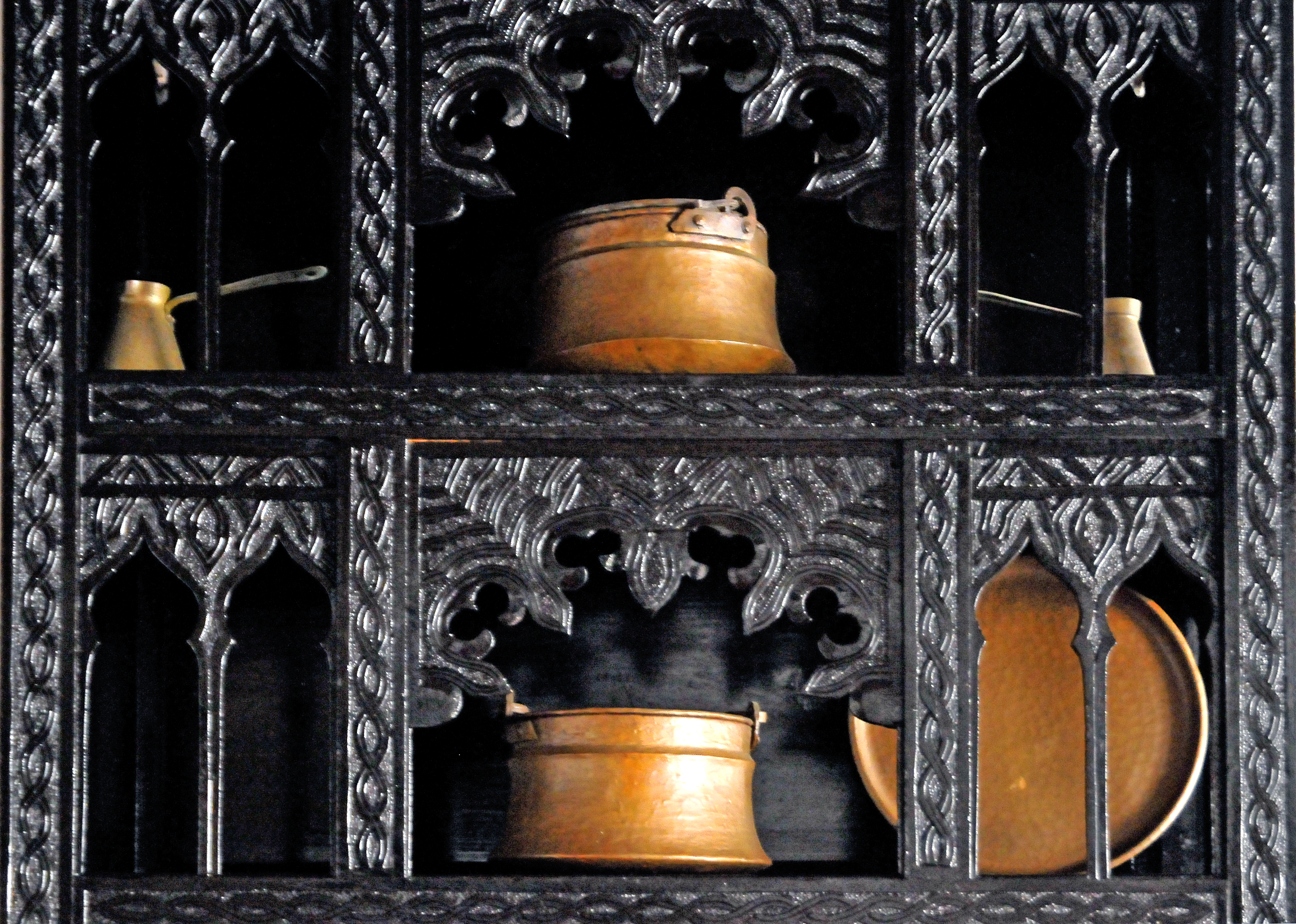 Carved wood cupboard with copper pots at the "Ottoman House". Mostar, Herzegovina-Neretva, Bosnia and Herzegovina